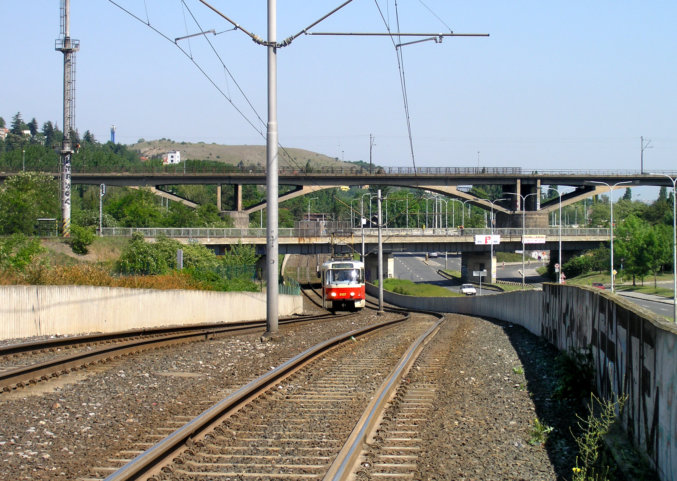 Tram line at Hodkovičky, Prague